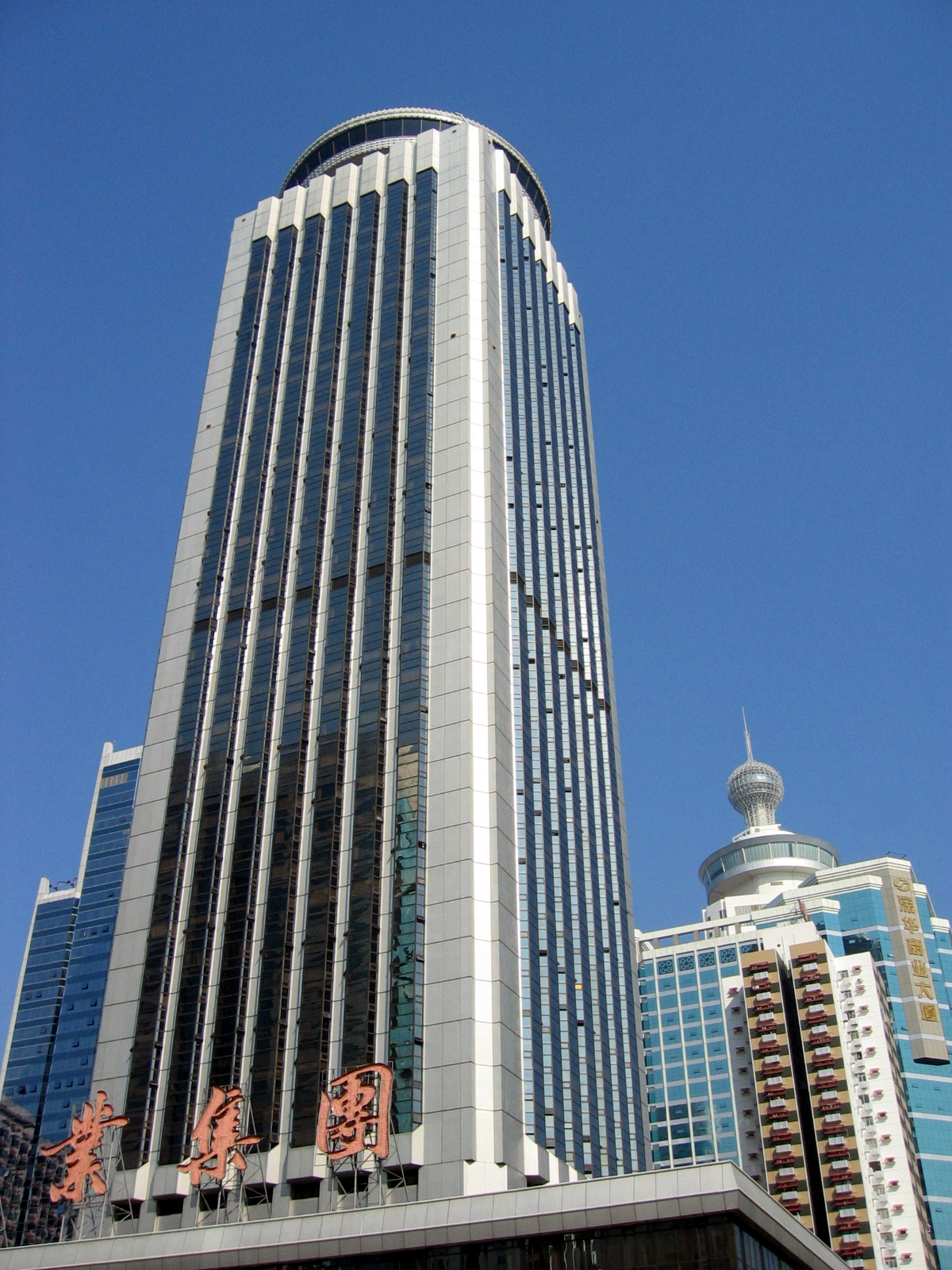 Guomao Dasha